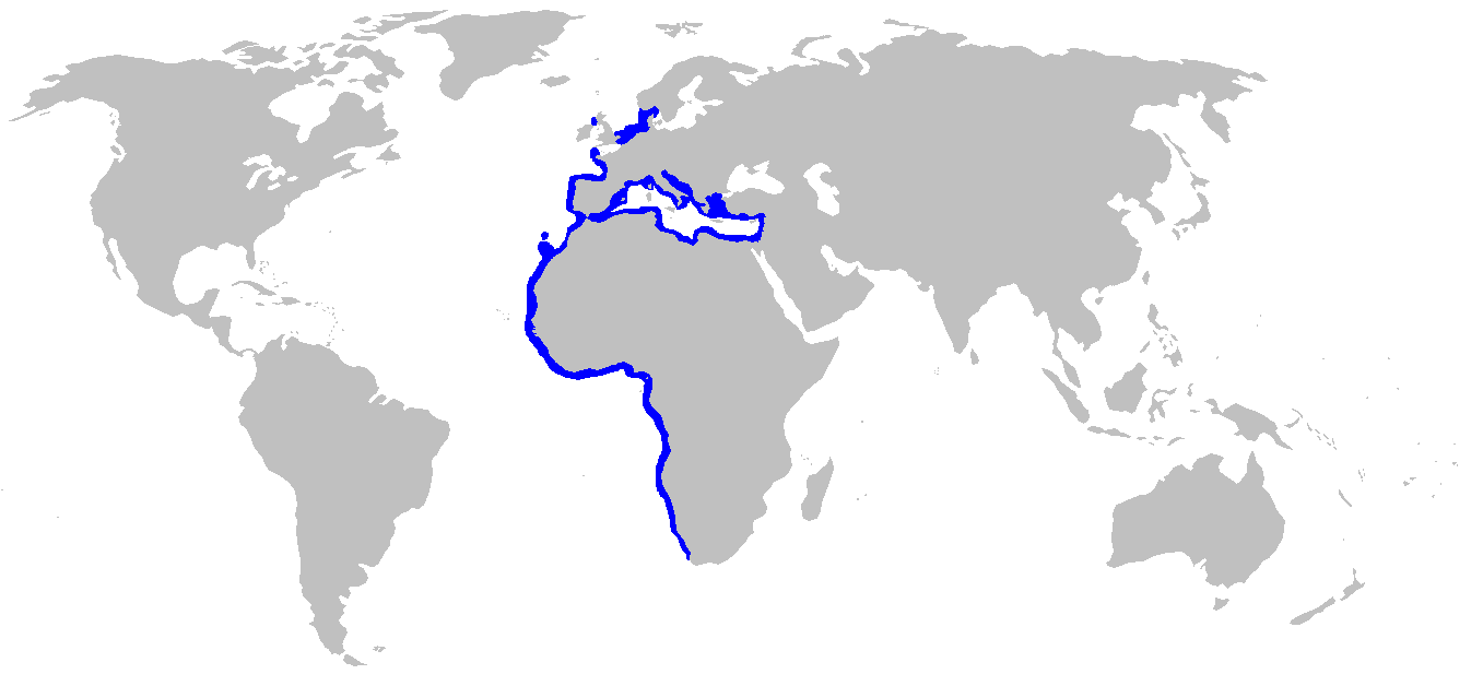 Range of the marbled electric ray (Torpedo marmorata), based on [1]